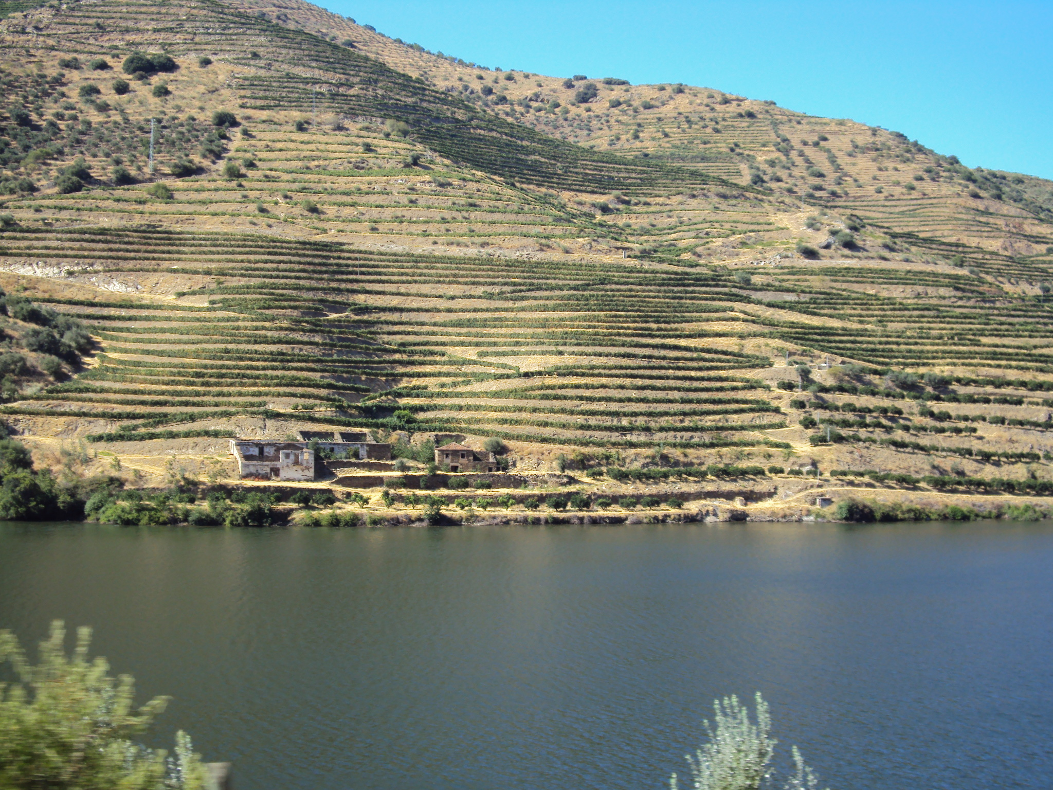 This is a photography of a Site of Community Importance in Portugal with the ID: PTCON0022. Natura2000 entry, EEA entry